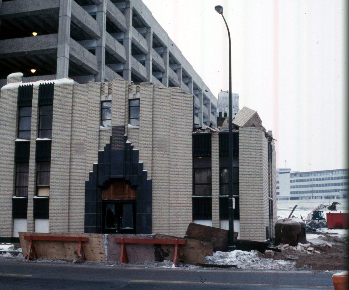 Salvation Army Headquarters in Saint Paul, Minnesota, taken during its demolition in late-January 1998. Digitalized slide from the Minnesota State Historic Preservation Office at the Minnesota History Center.